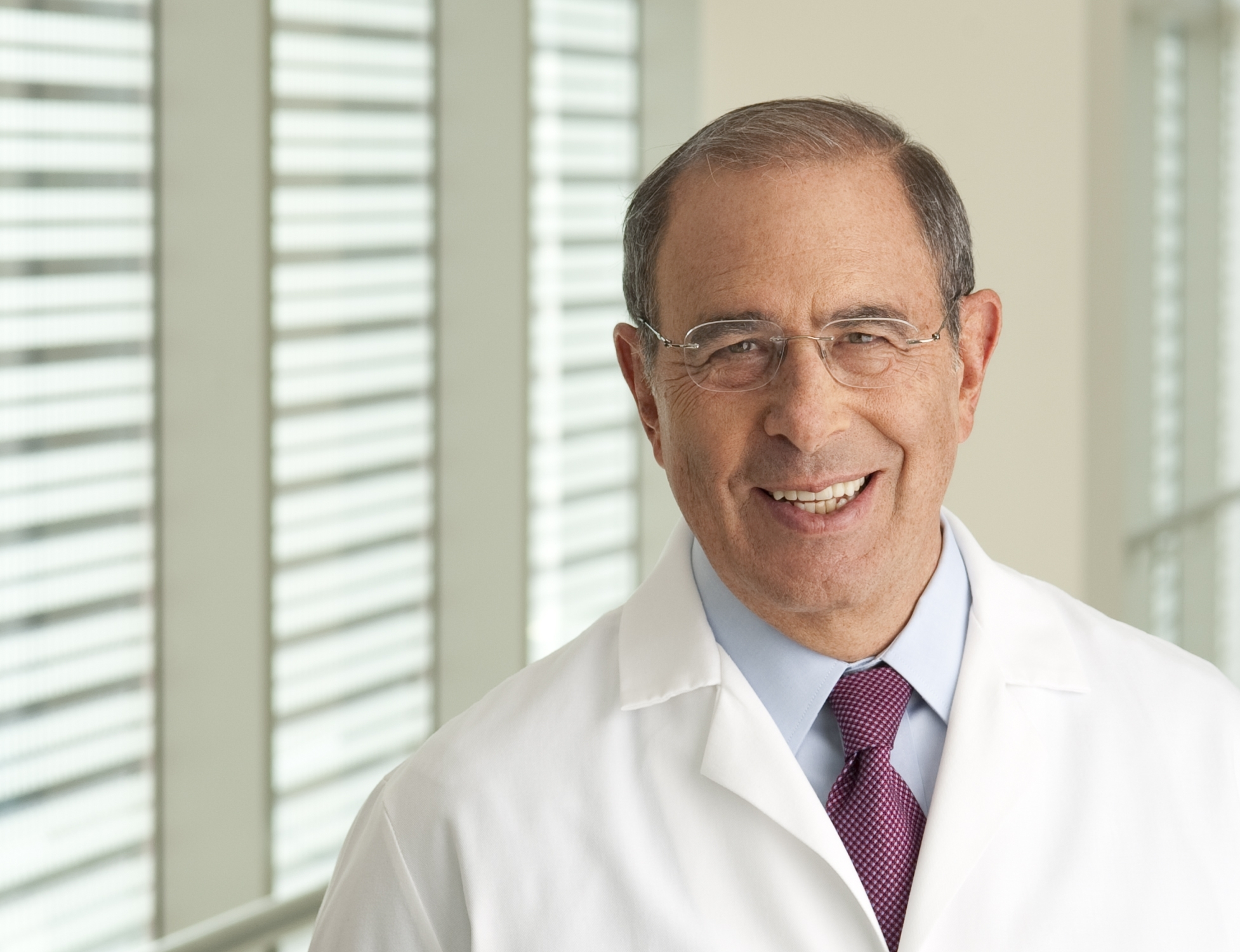 Dr. John Gallin has been with NIH since 1971. He was the intramural director of the National Institute for Allergy and Infectious Diseases until 1994, the chief of the Laboratory of Host Defenses until 2003, and has been the Director of the Clinical Center since 1994.